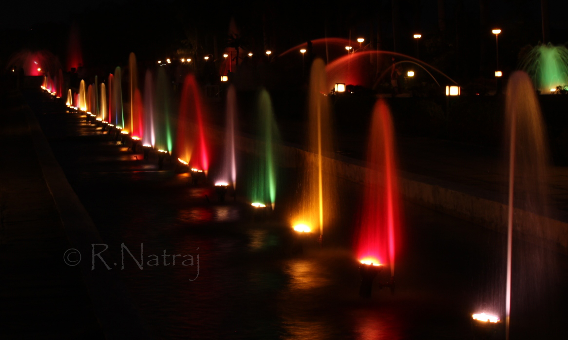 This is a picture of water fountains at Ajwa Nimeta gardens, in Vadodara, Gujarat, India